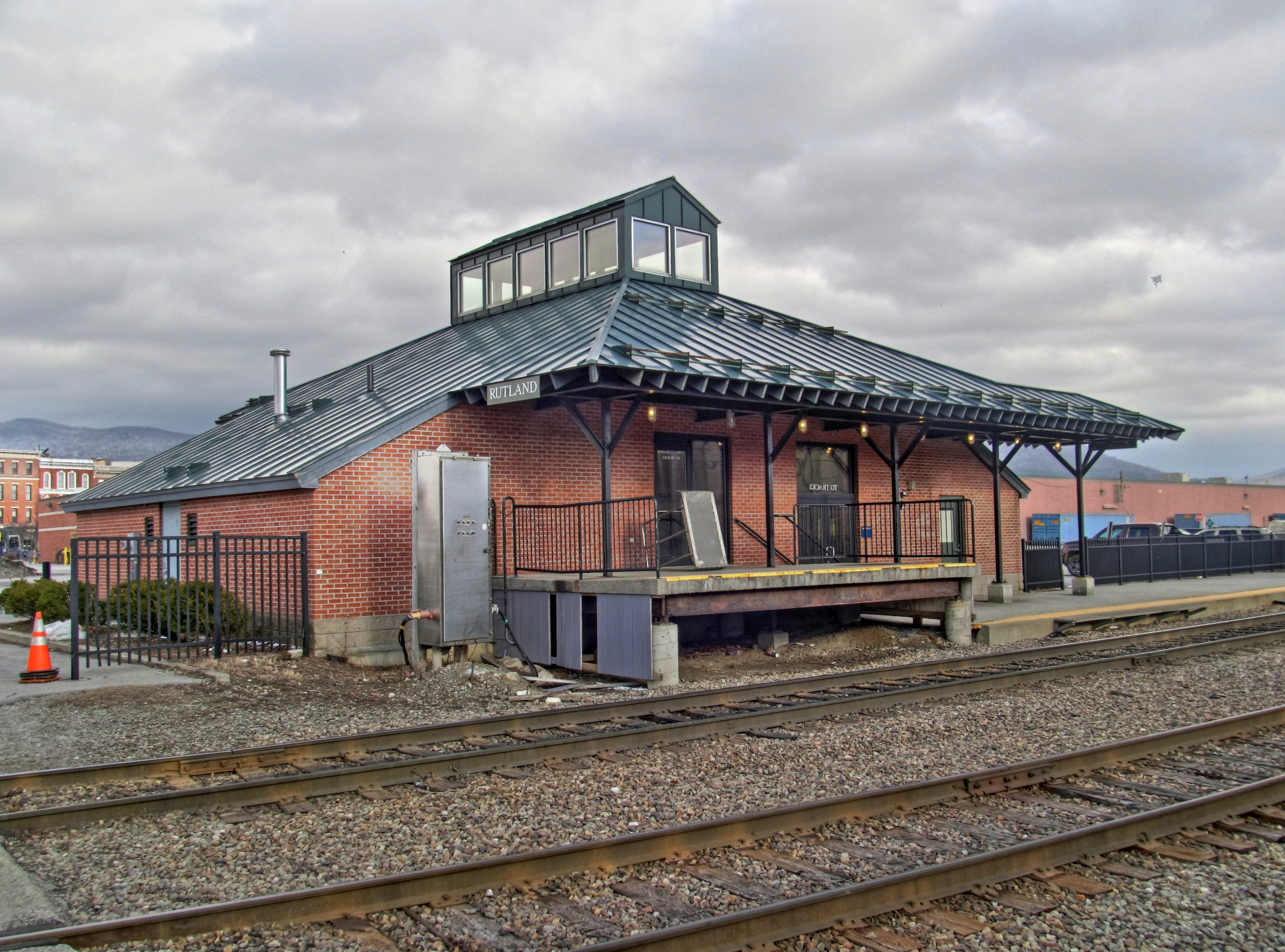 1999-built Amtrak station at Rutland, Vermont